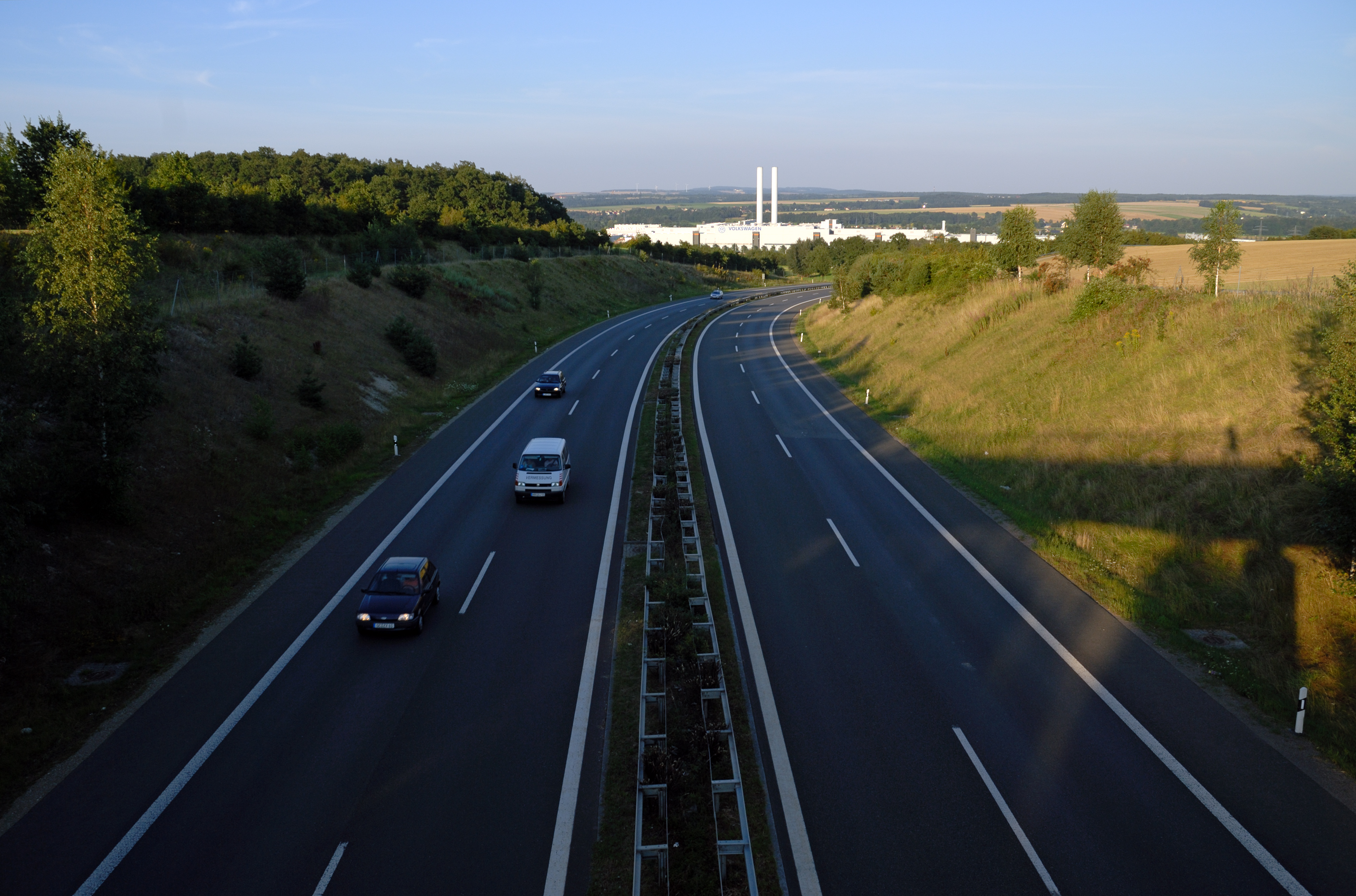 This image shows the Bundesstraße B93 in Zwickau/Mosel with the VW factory Zwickau in the background.